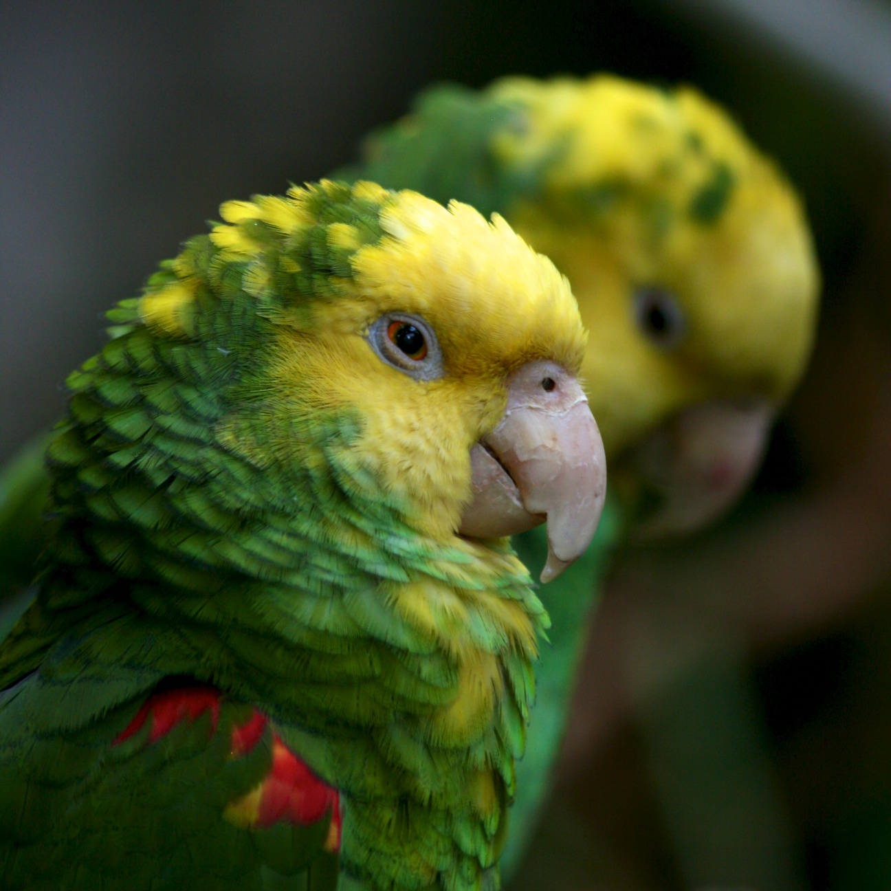 Taken at the Baltimore Aquarium, 030712.